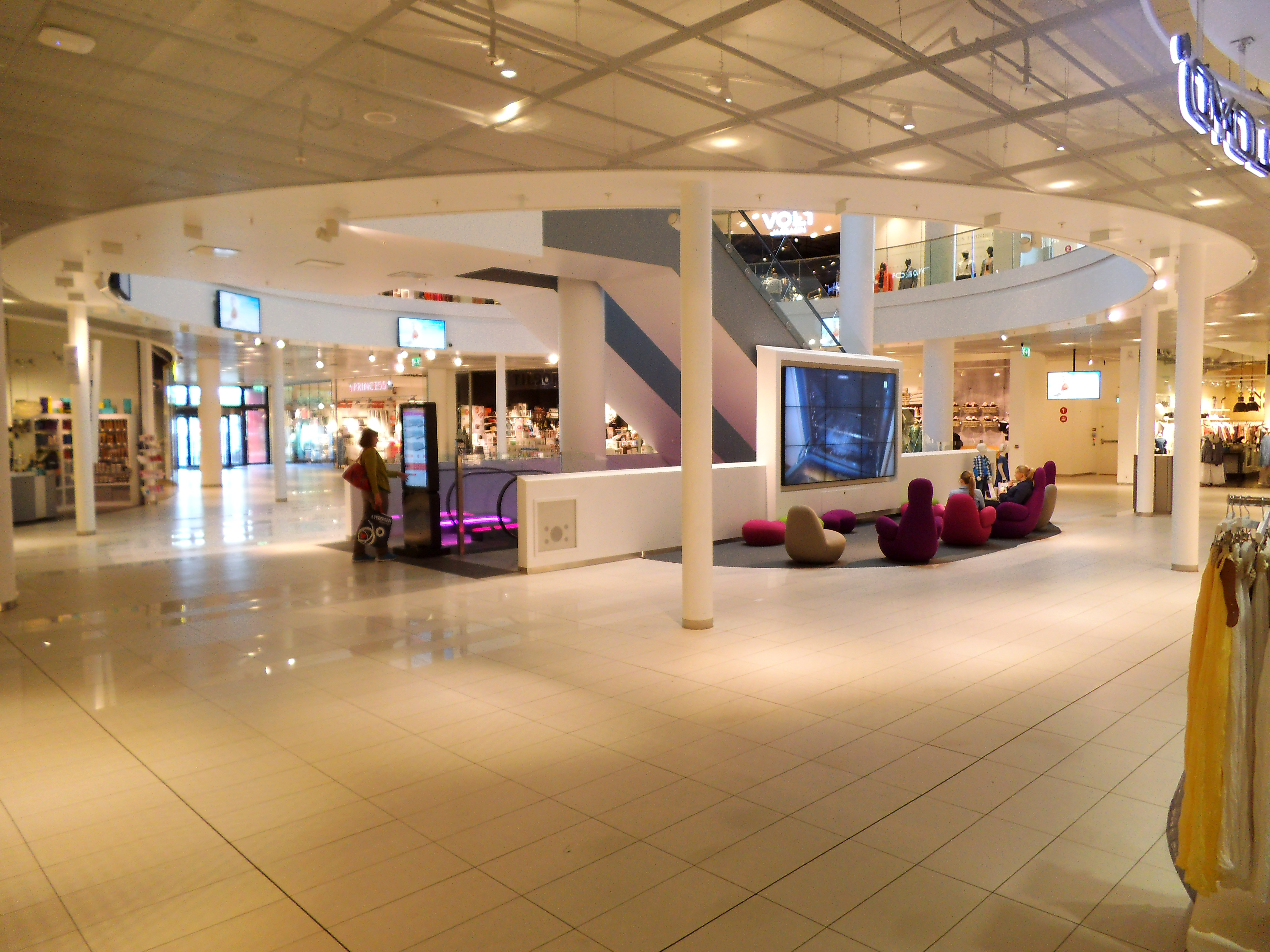 Some of the interior of Sirkus Shopping, a shopping mall in Trondheim.